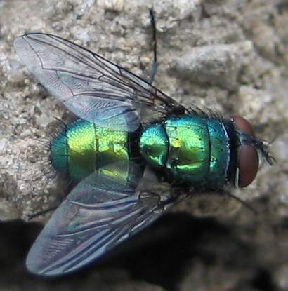 A photo of a Lucilia spec. Taken by Soebe in northern Germany and released under GNU FDL.